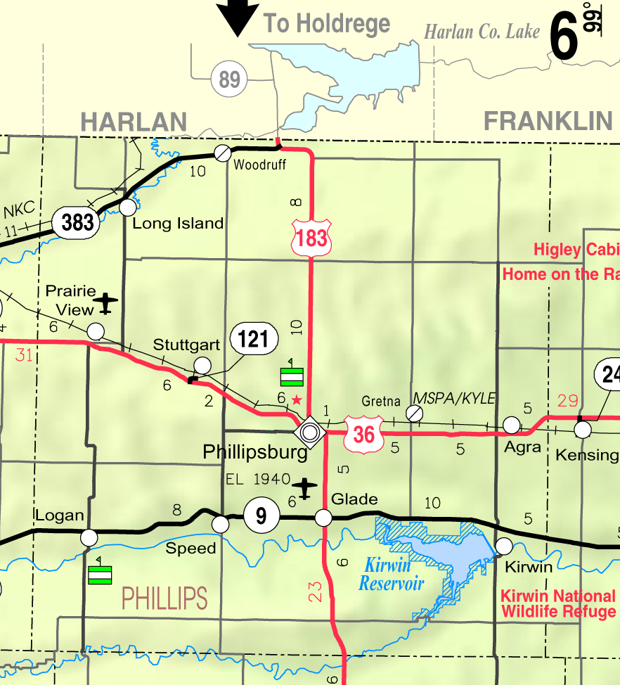 This map of Phillips County, Kansas, USA, is copied at a resolution of 300 pixels/inch from the original PDF file.